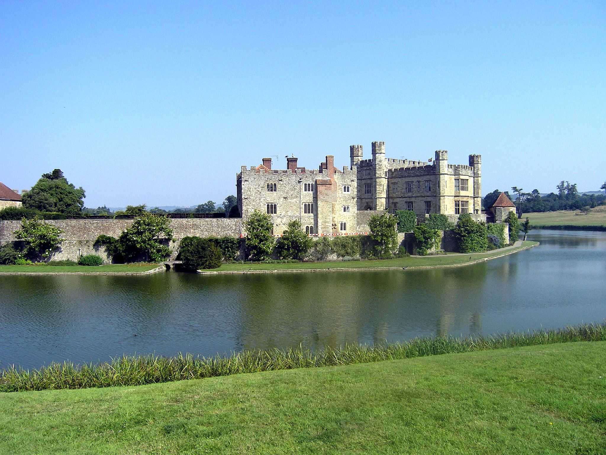 These are views of the grounds, 2 adjacent islands in the river Len in southeast England. This is a truly spectacular location, and we had beautiful weather that day. 'Acclaimed as the most romantic castle in England'. The original was built possibly as early as 856. This has disappeared. A stone castle was started about 1119. Edward I (1270's) rebuilt and enlarged it. Henry VIII spent a lot of money to expand & beautify it. Sunday, August 8, 2004 - Day 6 in England Full-day guided tour #3: Leeds Castle, Canterbury & Dover